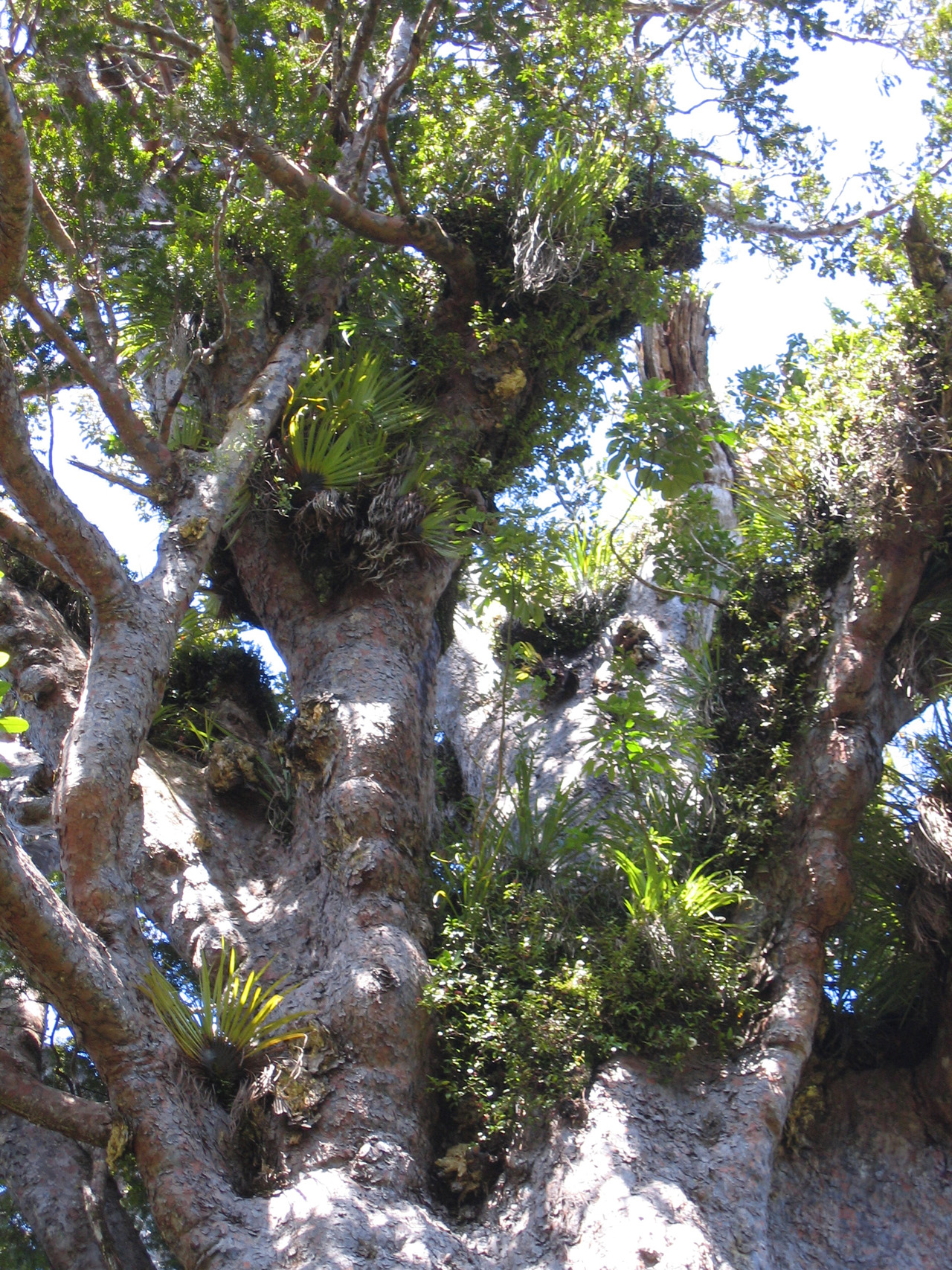 Agathis australis "Tāne Mahuta" in Waipoua Forest.